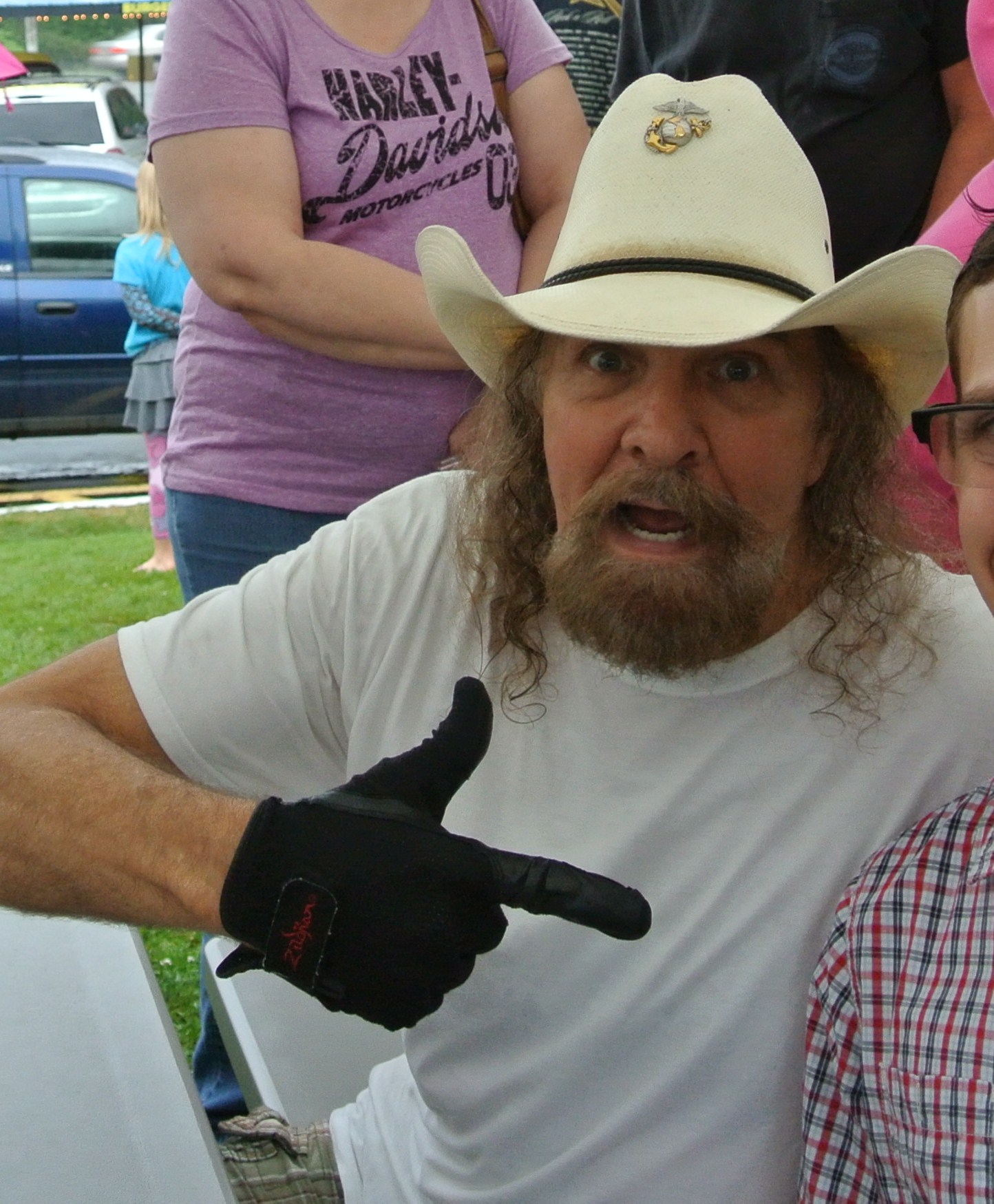 Artimus Pyle, former drummer of Lynyrd Skynyrd.